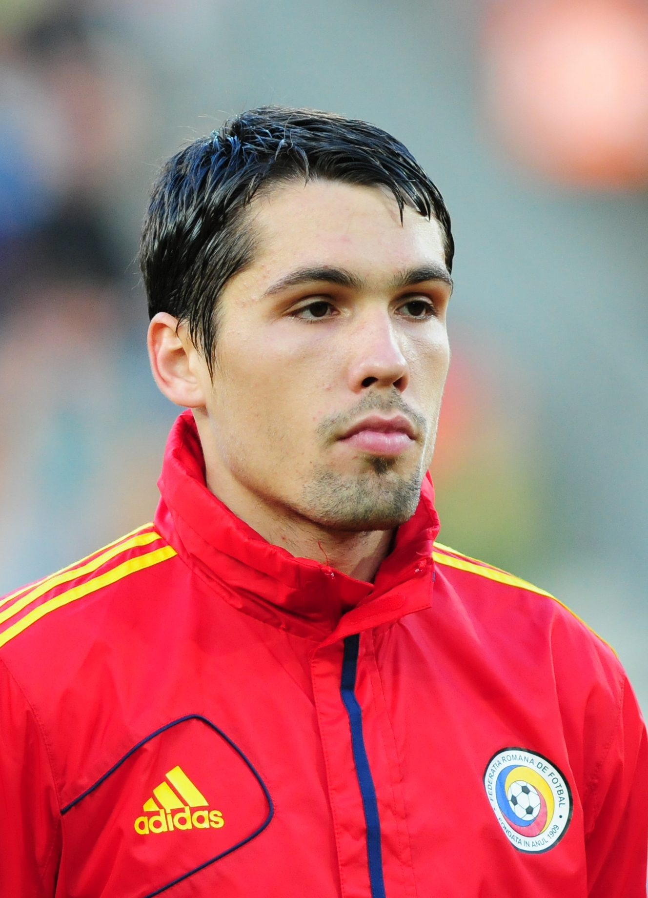 Exhibition game Austria vs. Romania at 5st. June 2012